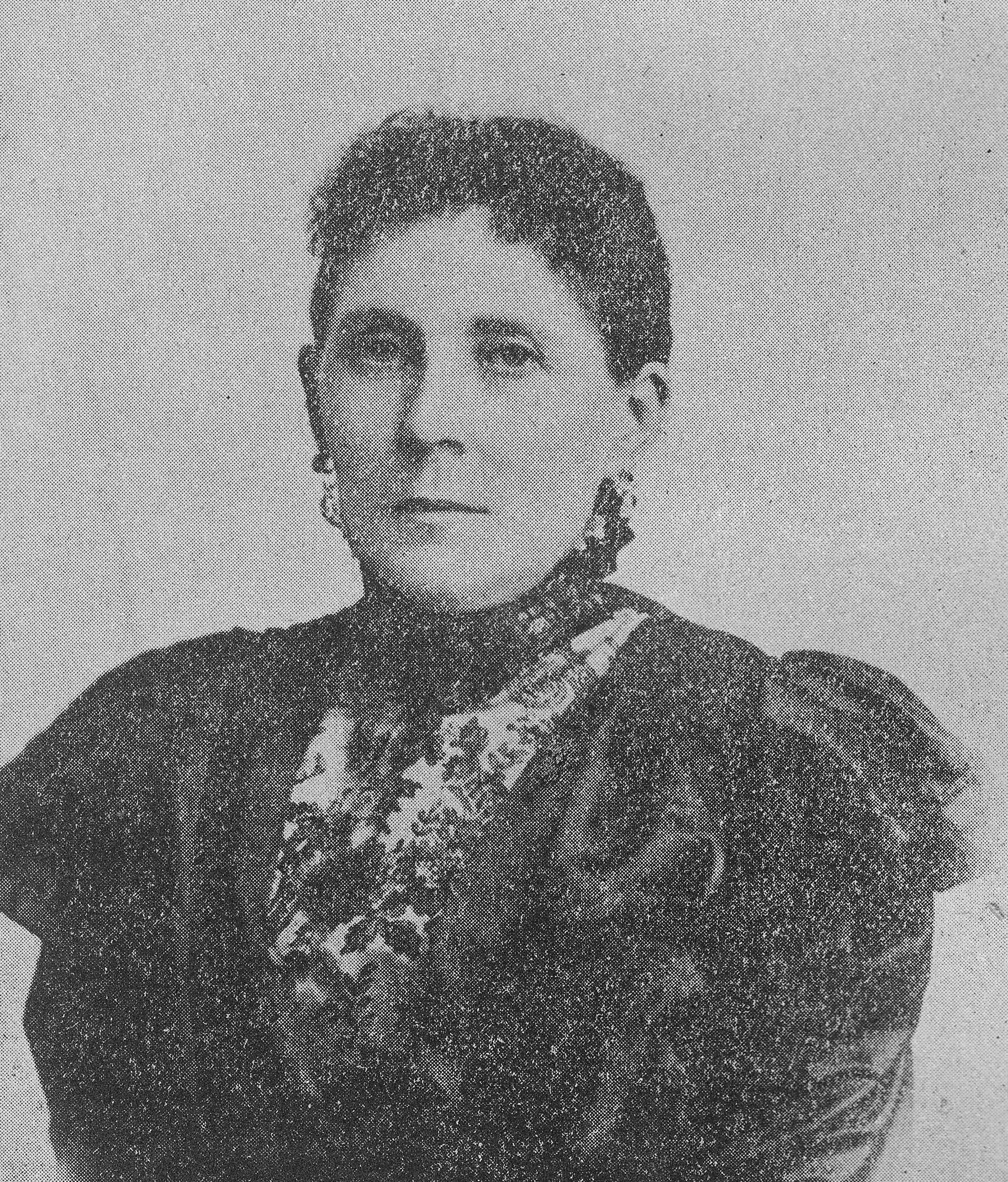 A photograph of Petronela Dumča, wife of Evgenije Dumča, Serbian merchant and longtime mayor of Szentendre. Taken from the 1899 edition of the calendar Orao. Srpski (latinica): Fotografija Petronele Dumče, supruge Evgenija Dumče, srpskog trgovca i dugogodišnjeg gradonačelnika Sentandreje. Preuzeto iz izdanja kalendara Orao za 1899. godinu.